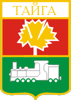 Coat of arms of Taiga (Kemerovo oblast, Russia)